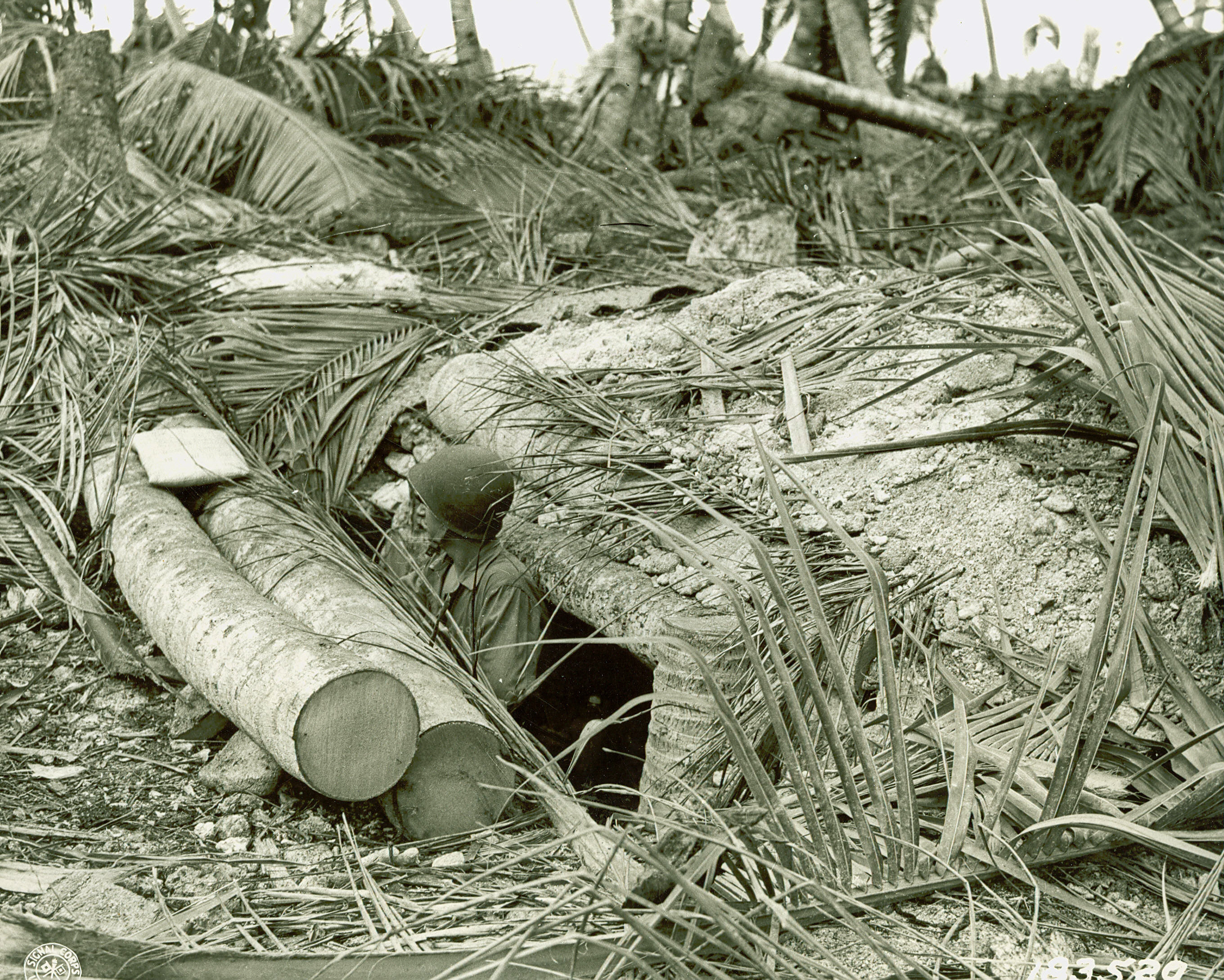 Japanese forces built these types of dugouts in front of the native village possibly hoping they would be spared from naval shelling and bombing. A soldier stands on the floor to show the depth of the shelter. Red Beach at Gander Point in the Makin Atoll.